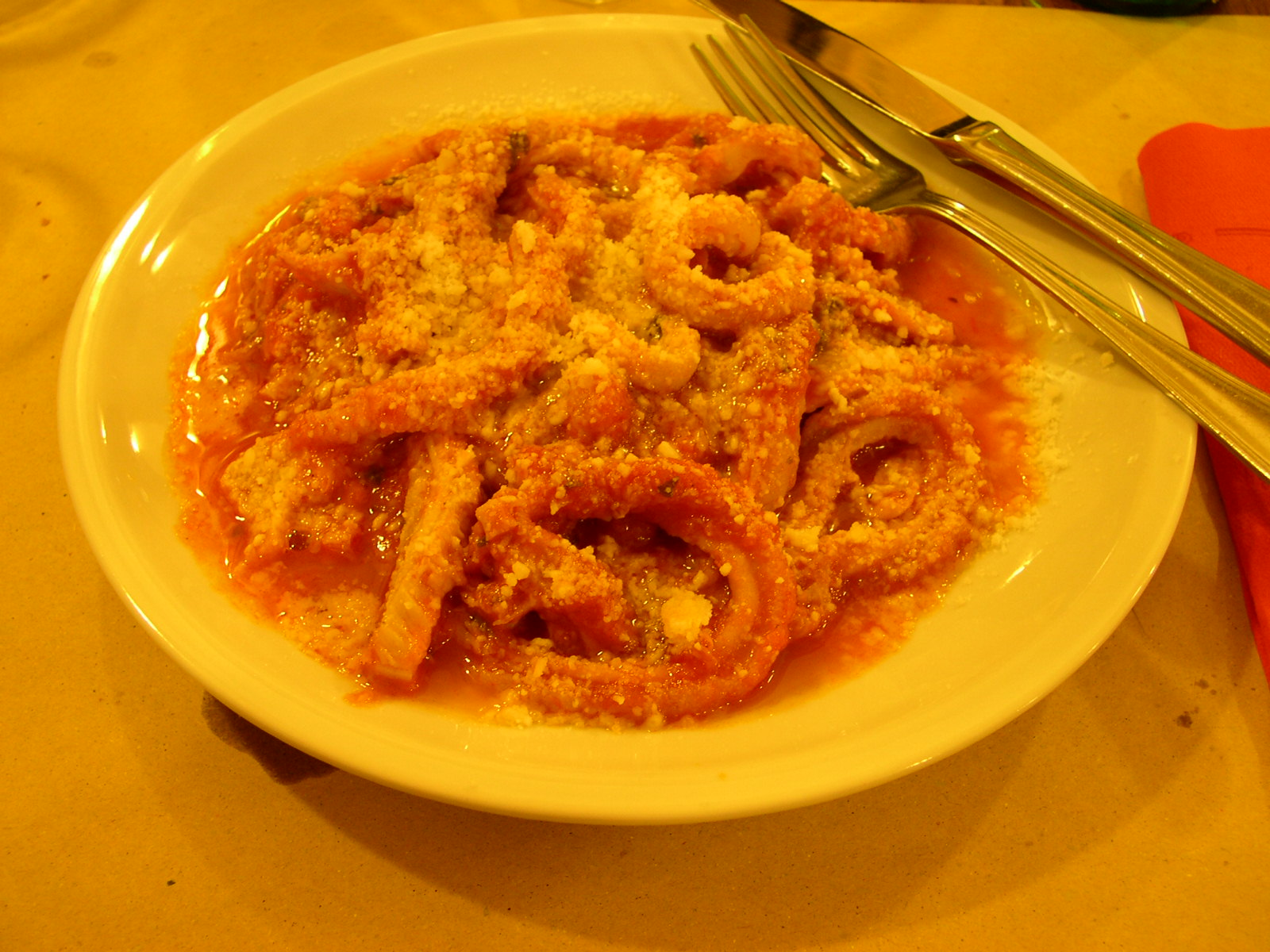 Trippa alla Romana at a restaurant in Trastevere, Rome.